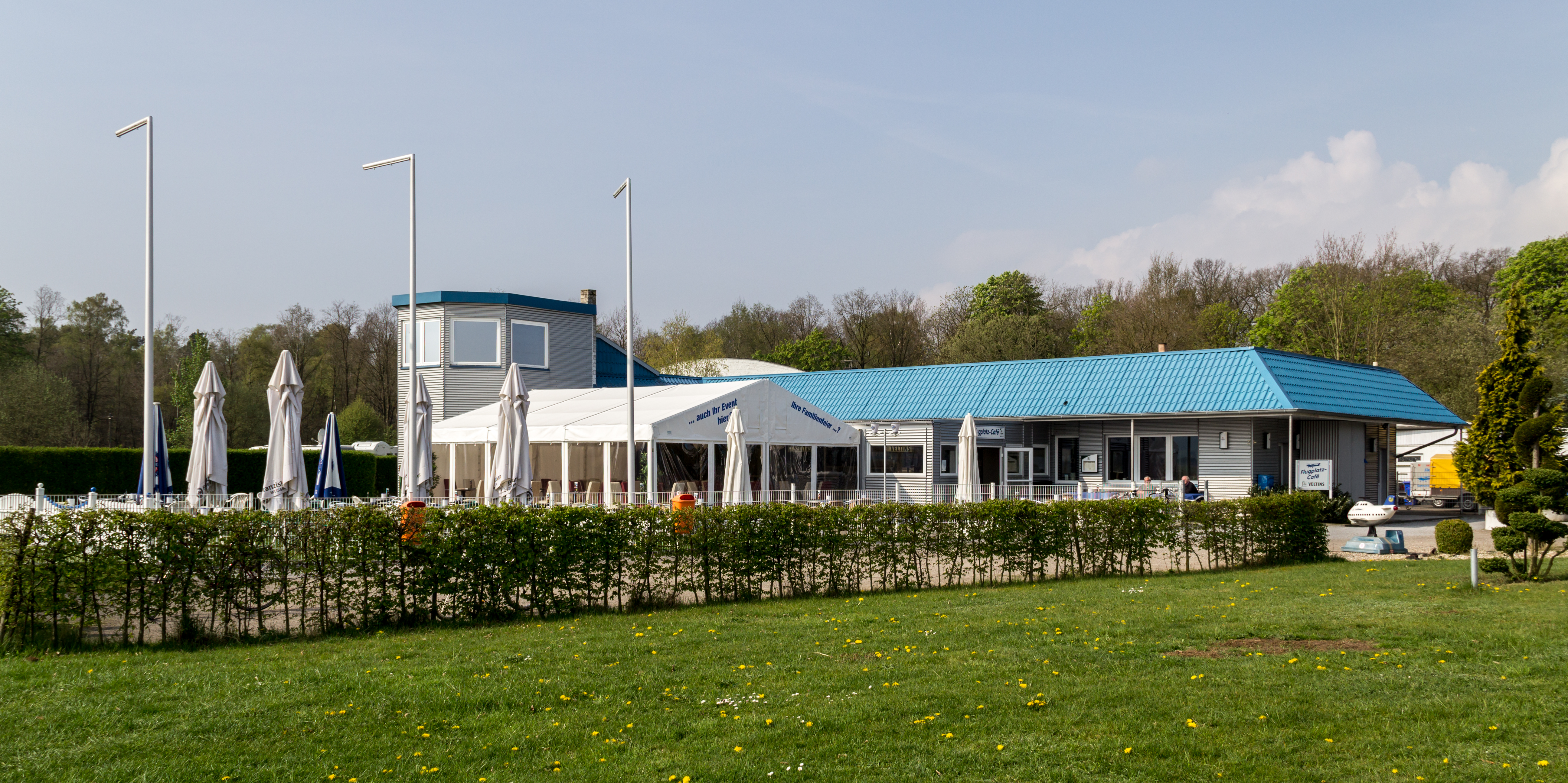 Airfield Café at the air field Borkenberge near Lüdinghausen, North Rhine-Westphalia, Germany